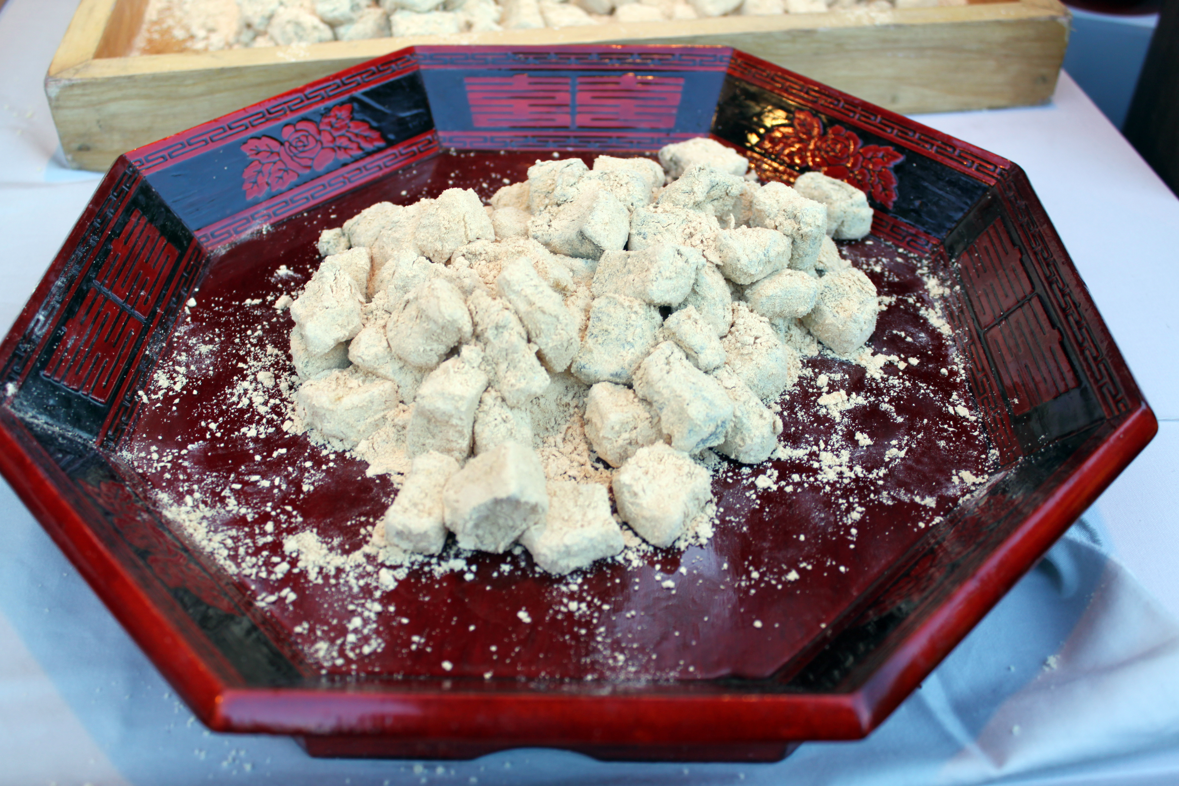 Foundation Day Celebration at Korean Ambassador's House on October 6, 2009